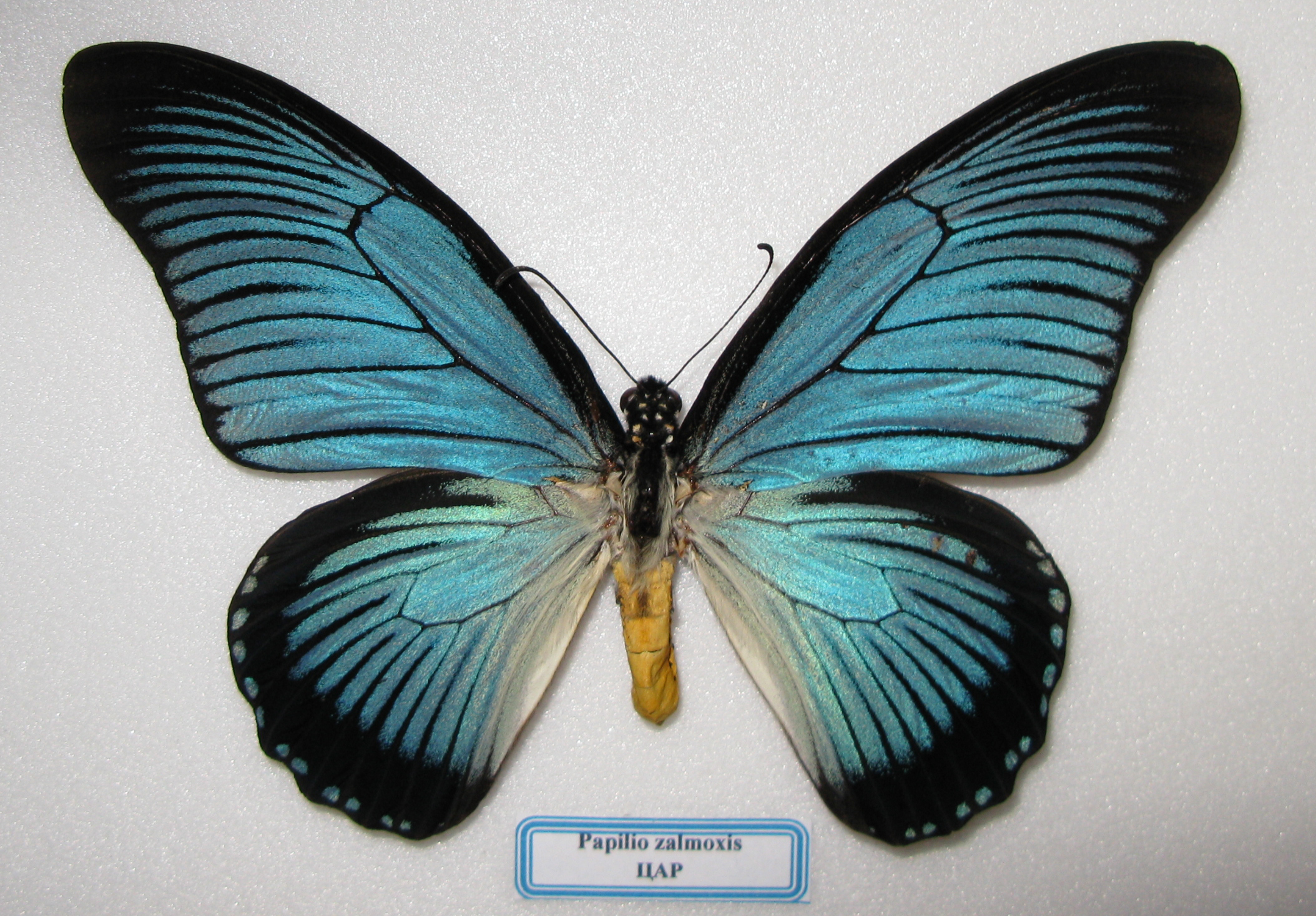 Papilio zalmoxis